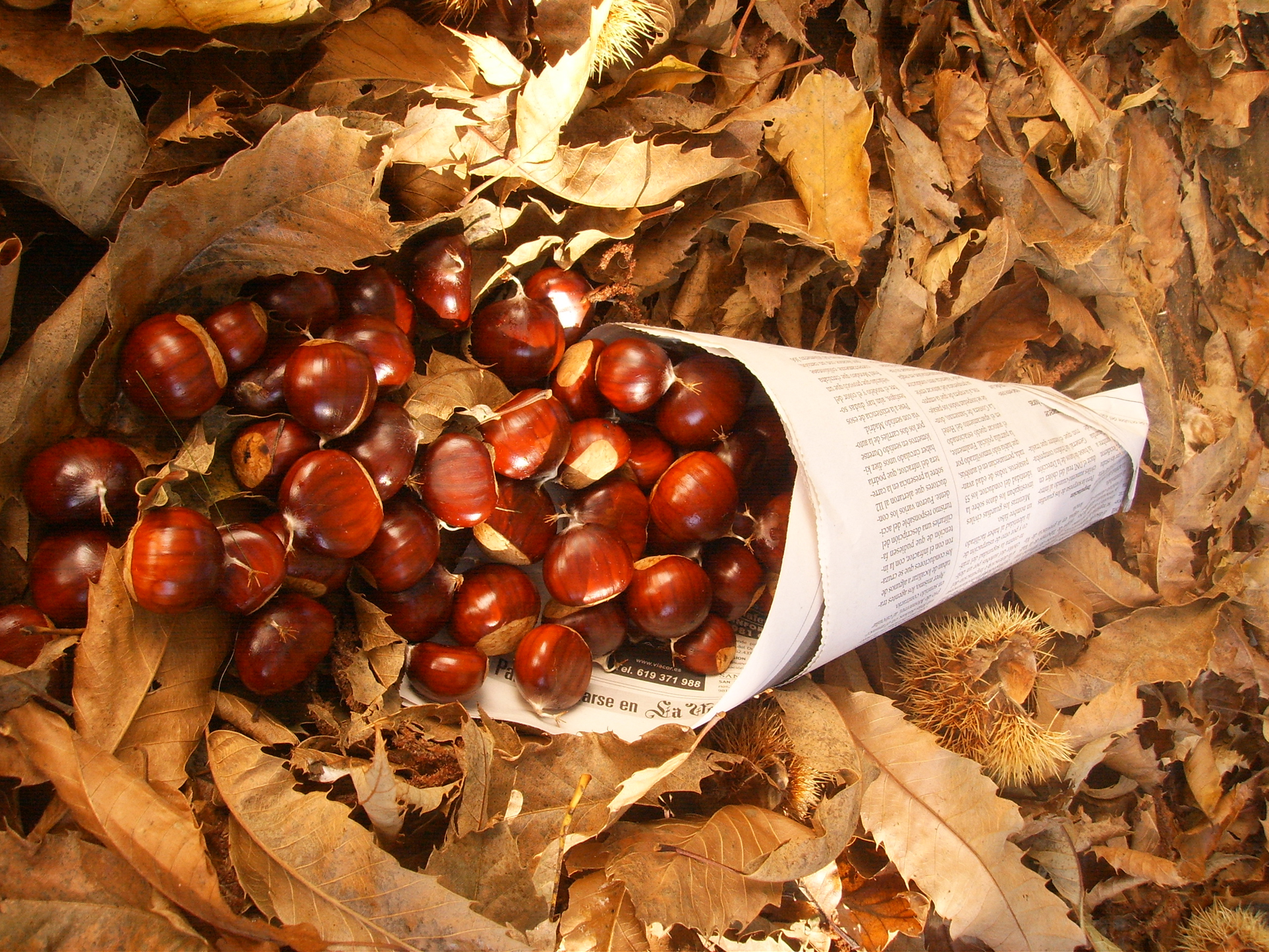 Chestnuts for the Catalan festival of Castanyada.